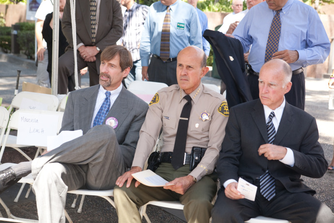 Dr. Henry T. Nicholas, III with Los Angeles County Sheriff Lee Baca and Attorney General of California Jerry Brown at the National Day of Remembrance